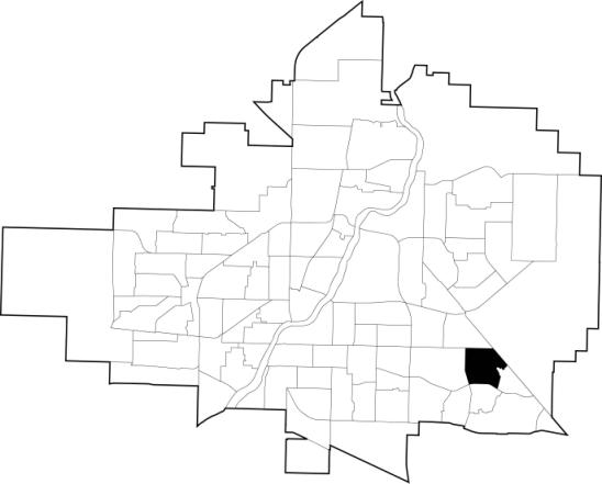 A map showing the location of the Briarwood neighbourhood in relation to the other neighbourhoods in Saskatoon.